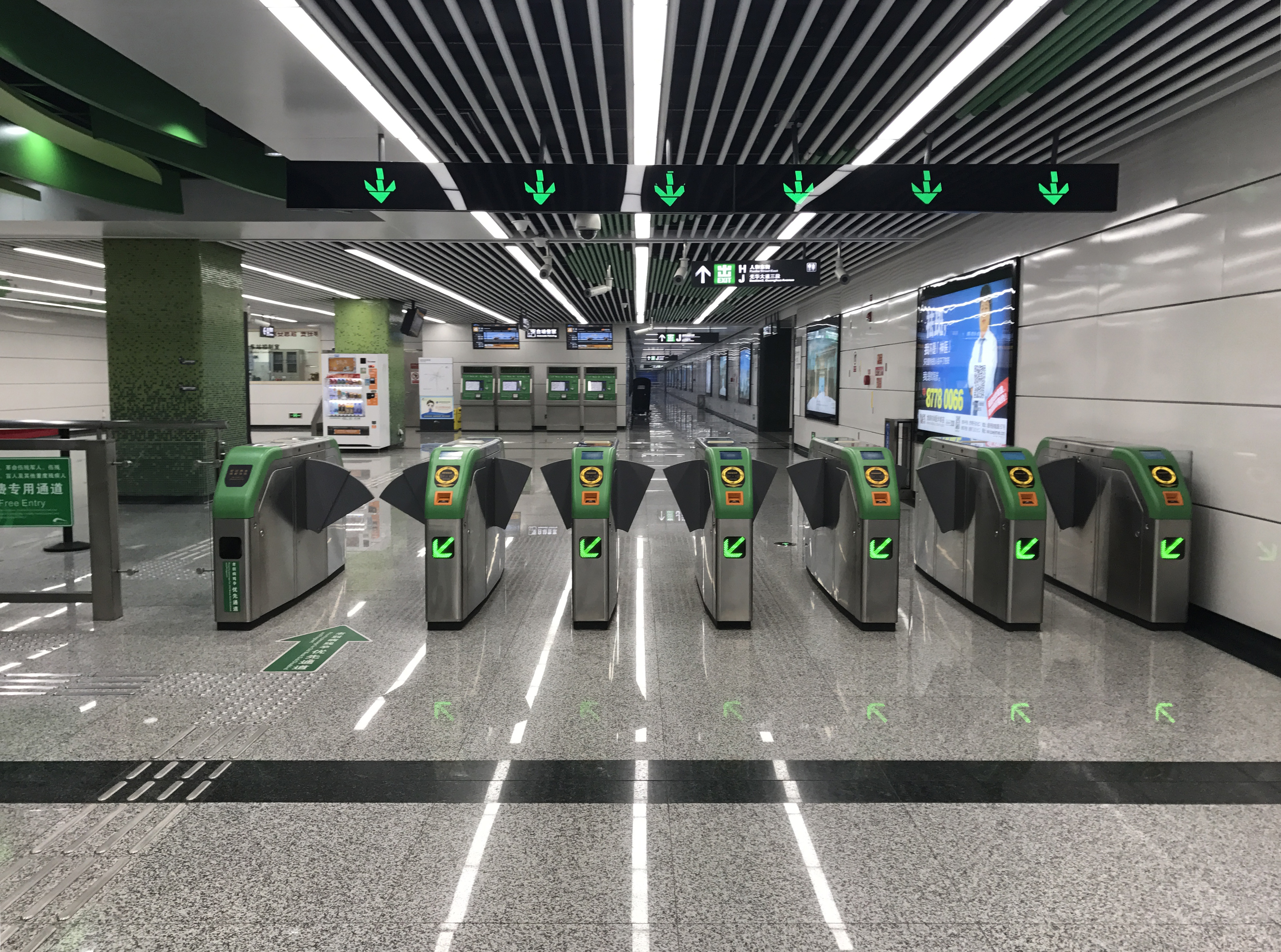 Turnstile in Guanghua Park Station, Chengdu Metro